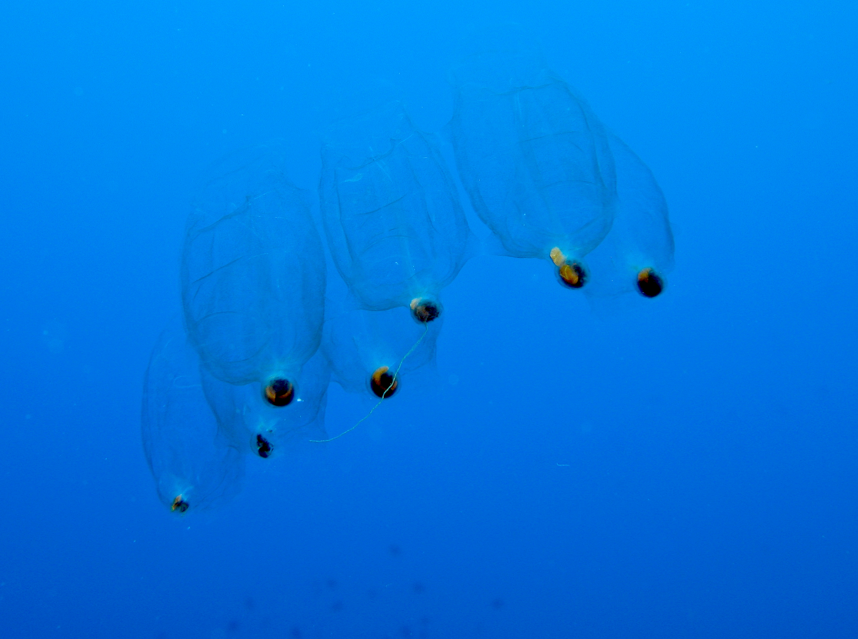 Blastozooid chain of the salp Pegea confoederata incorrectly identified as a species of the family Doliolidae (synonym Cyclomyaria )